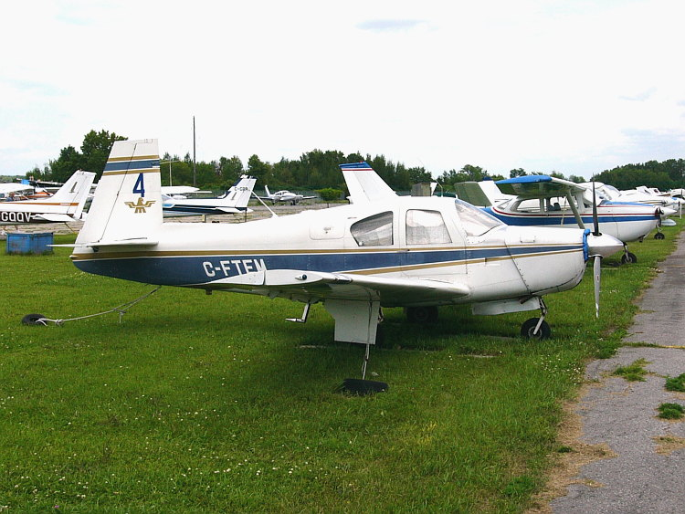 I took this photo of Mooney M20E Super 21 C-FTEM on 16 July 2008 at Rockcliffe Airport